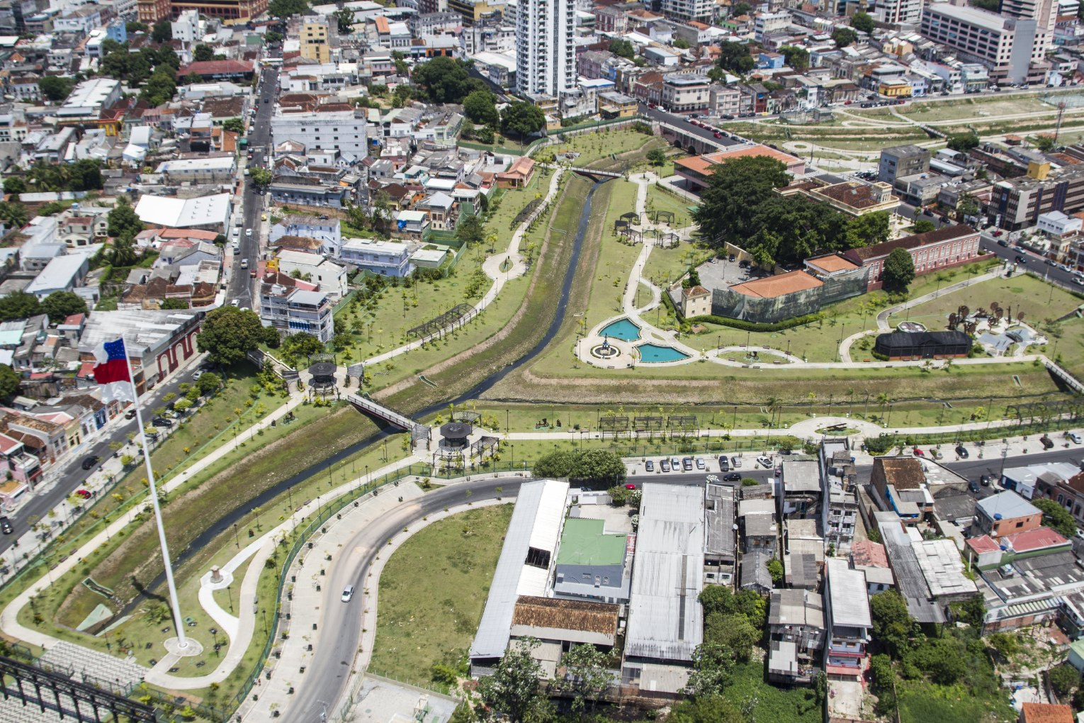 Senator Jefferson Péres Park in Manaus, Brazil.